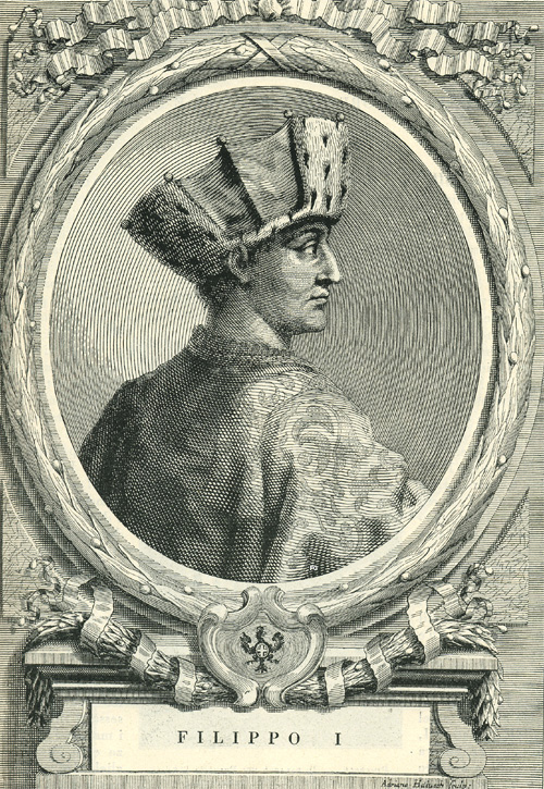 Filippo I, count of Savoia (1207-1285)